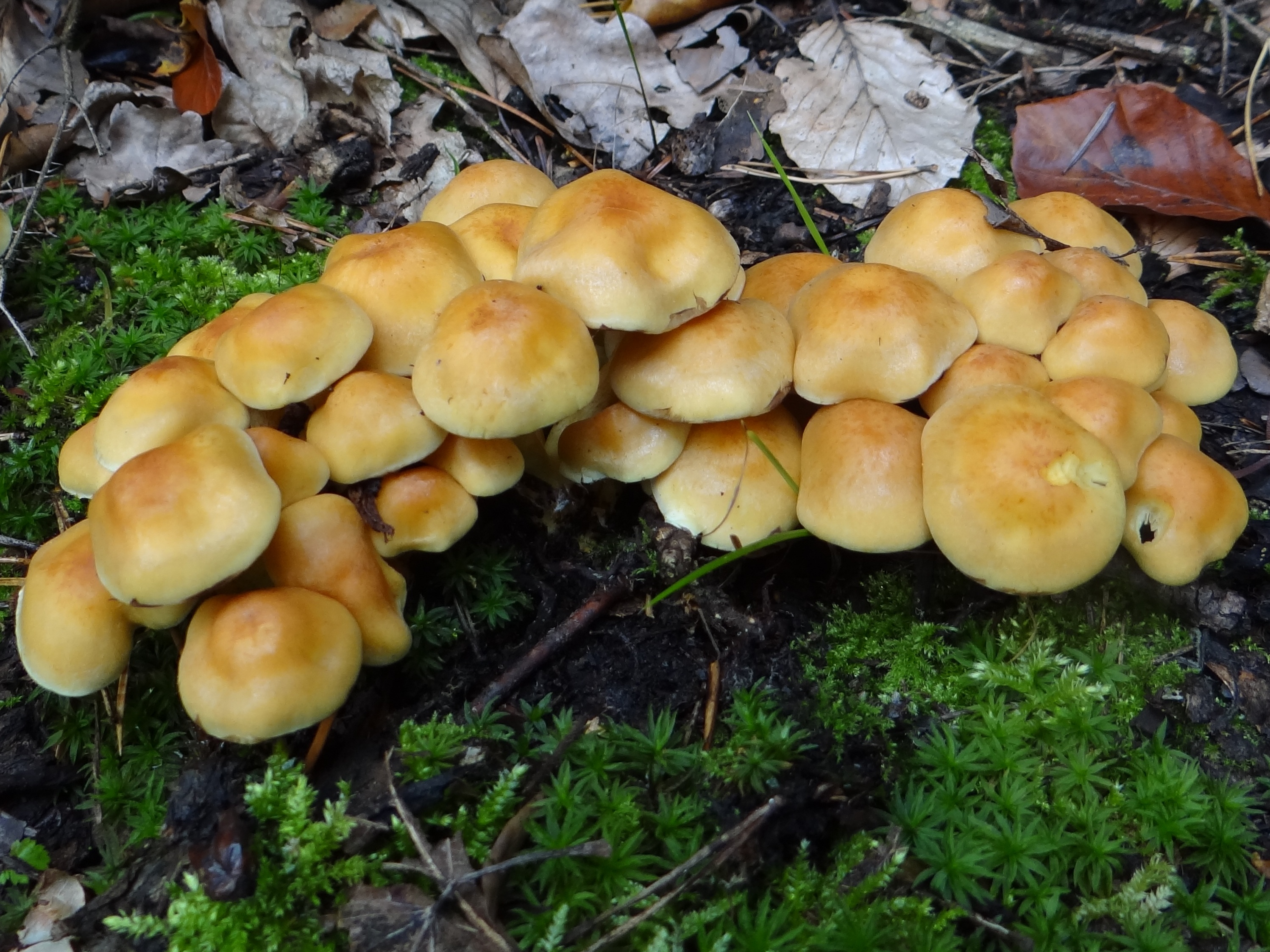 Hypholoma capnoides (location: Poland, Beskid Wyspowy, Kamionna)